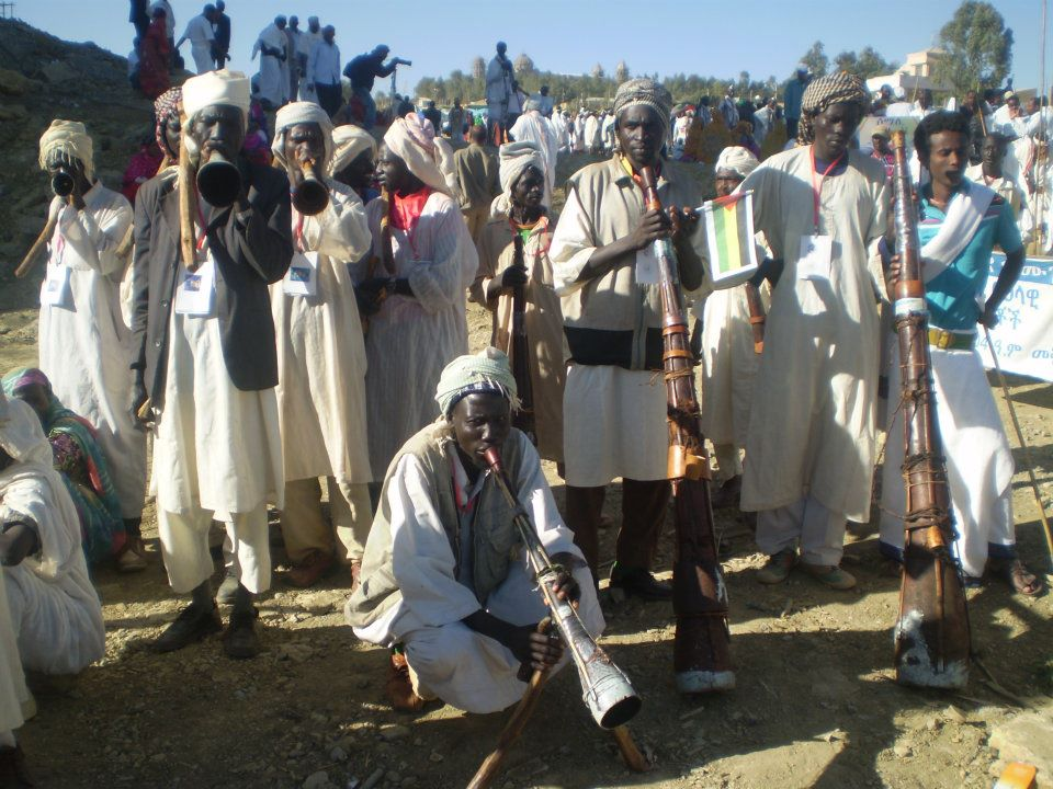 This is an image of music and dance from Ethiopia